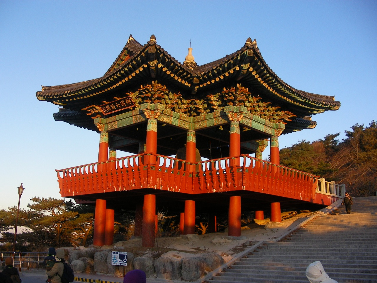 A bell pavillion near Seokguram (석굴암)